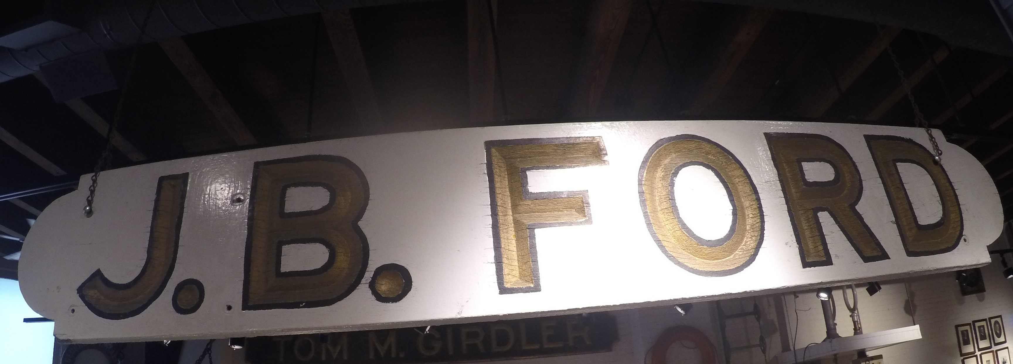 Steamship J. B. Ford name board on display at the Buffalo Harbor Museum in Buffalo, New York USA